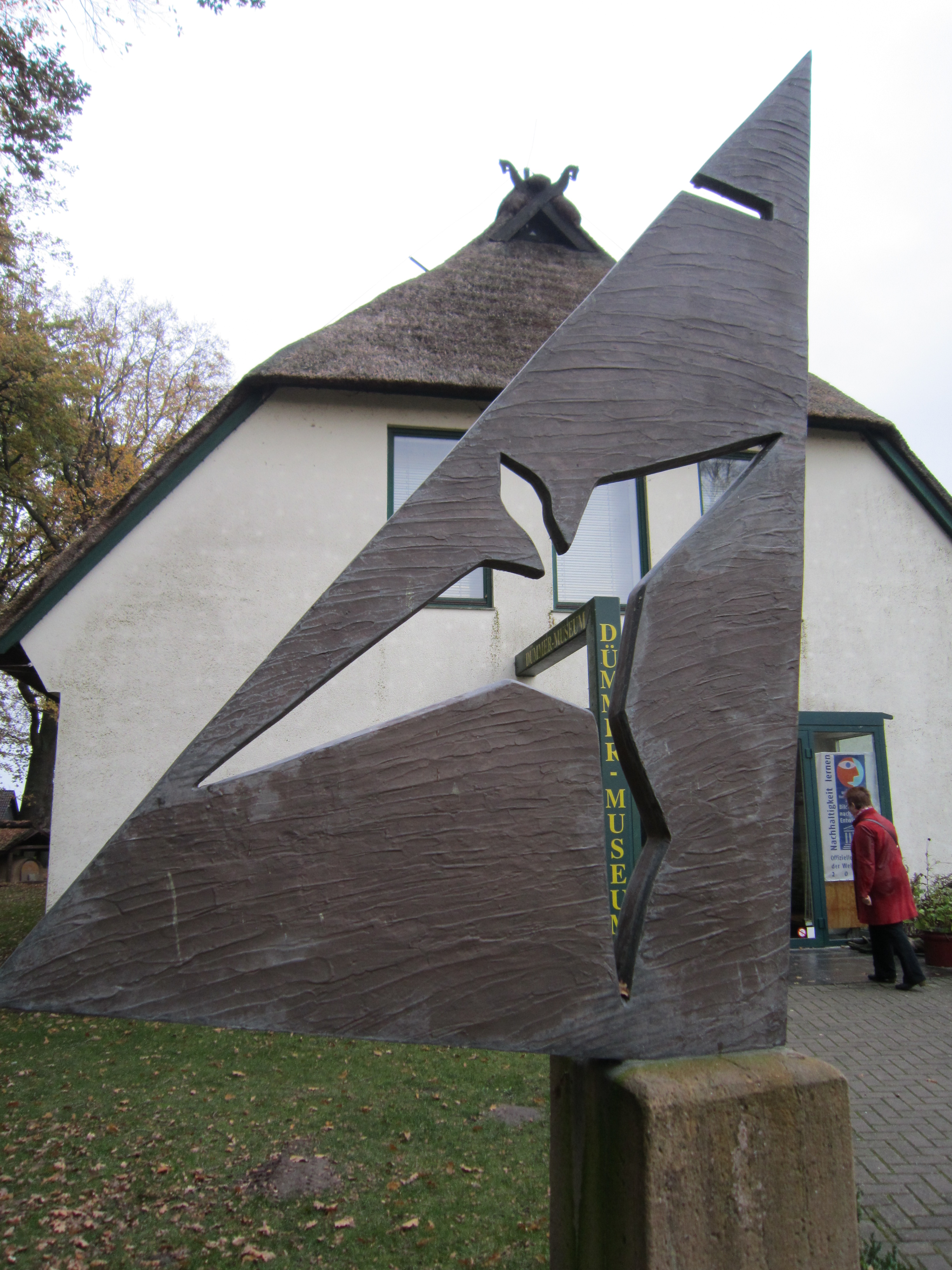 Stone sculpture "Segel" ("Sail") by Inka Uzoma in front of the Duemmer Museum in Lembruch as part of the sculpture walk "Diepholz - Dümmer"